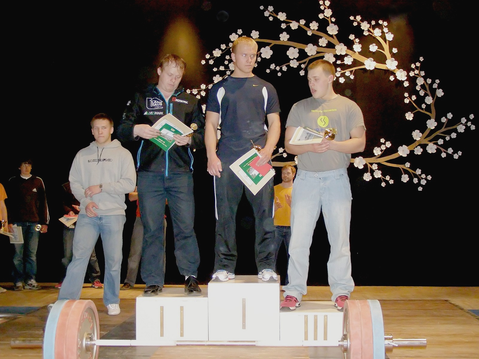 Andres Allsalu (the rightmost)